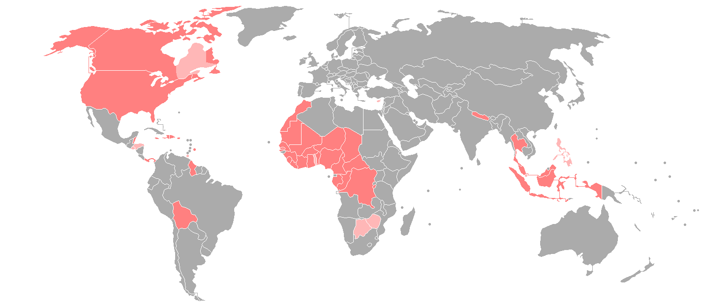 Countries where American Sign Language, or a close derivative thereof, is the national language for the deaf, or where used alongside another sign language.png